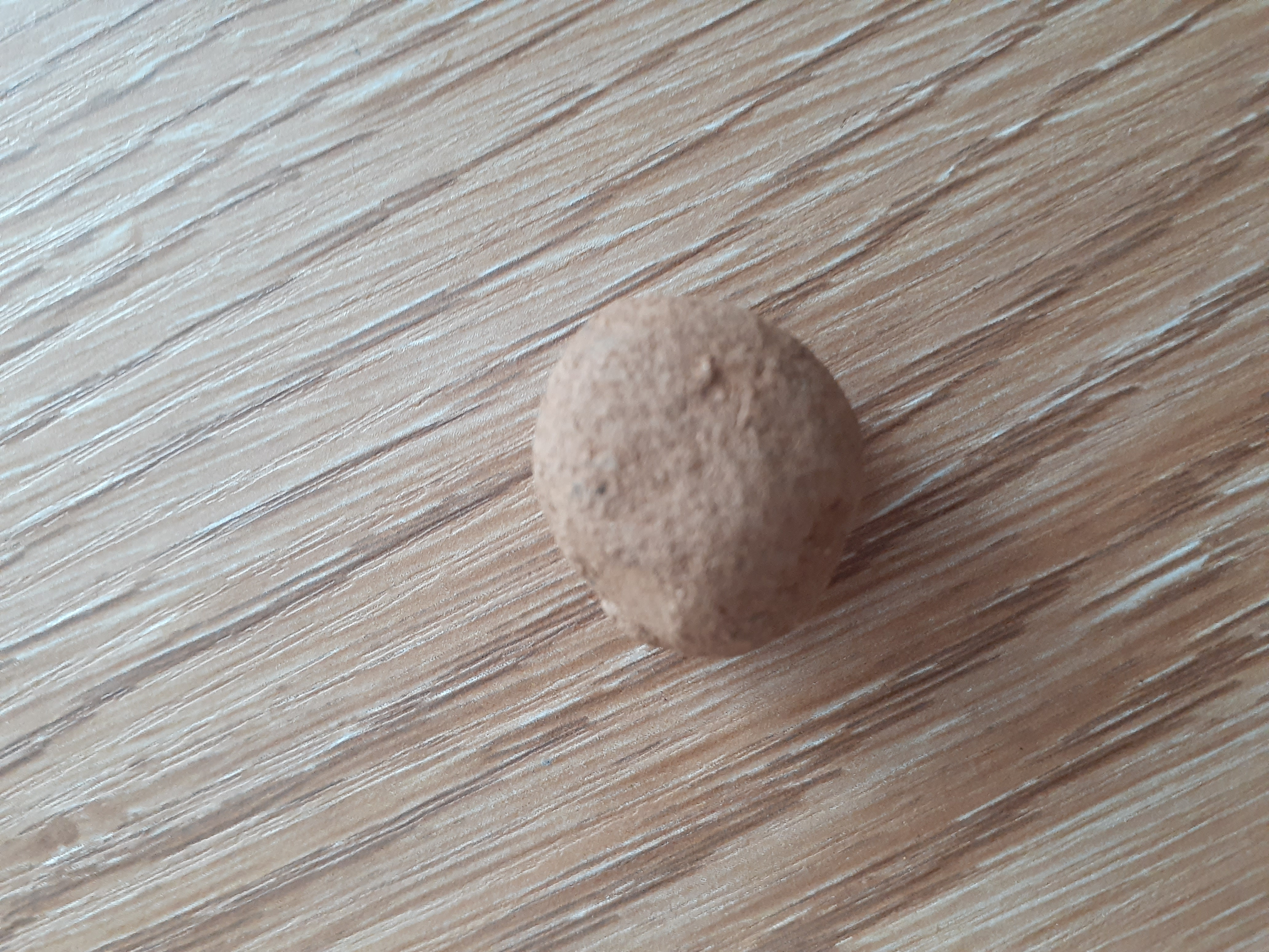 시드볼의 모습